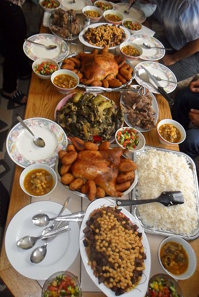 Various Kurdish dishes from the Sinjar region, Nineveh Province